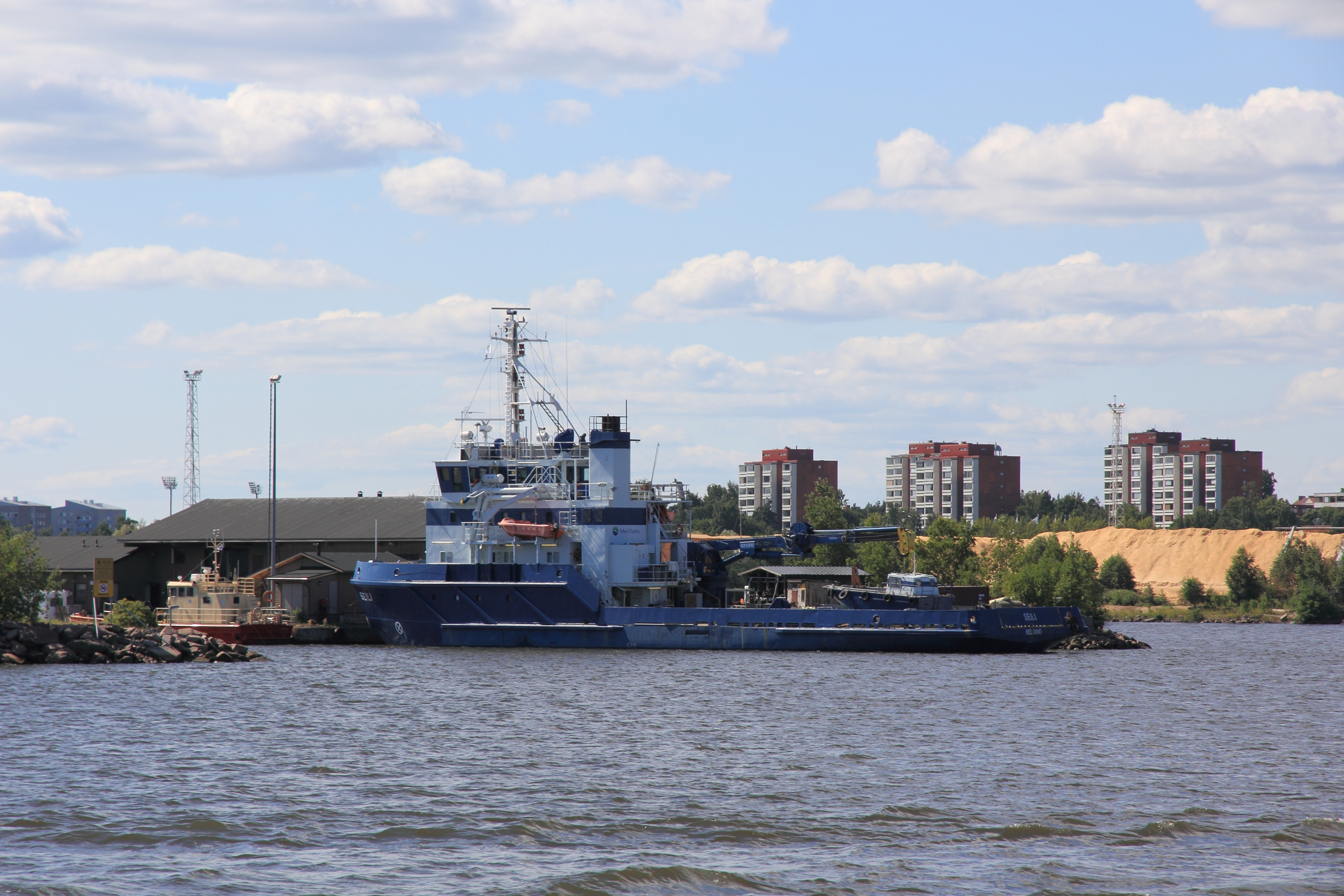 Finnish buoy tender Seili in Kuusinen harbour in Kotka.